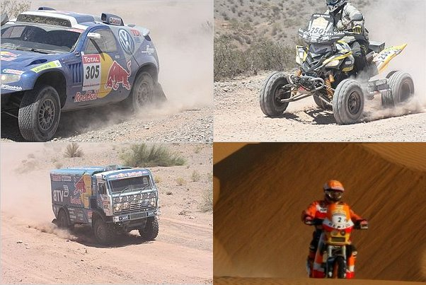 Rally Dakar Argentina-Chile-Argentina . In the picture Marc Coma (Nº2), winner of the Rally Dakar 2009, in the moto category